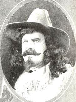 American actor Duke R. Lee (1881 – 1959) in the American film In the Days of Buffalo Bill (1922), on page 35 of the June 10, 1922 Universal Weekly.